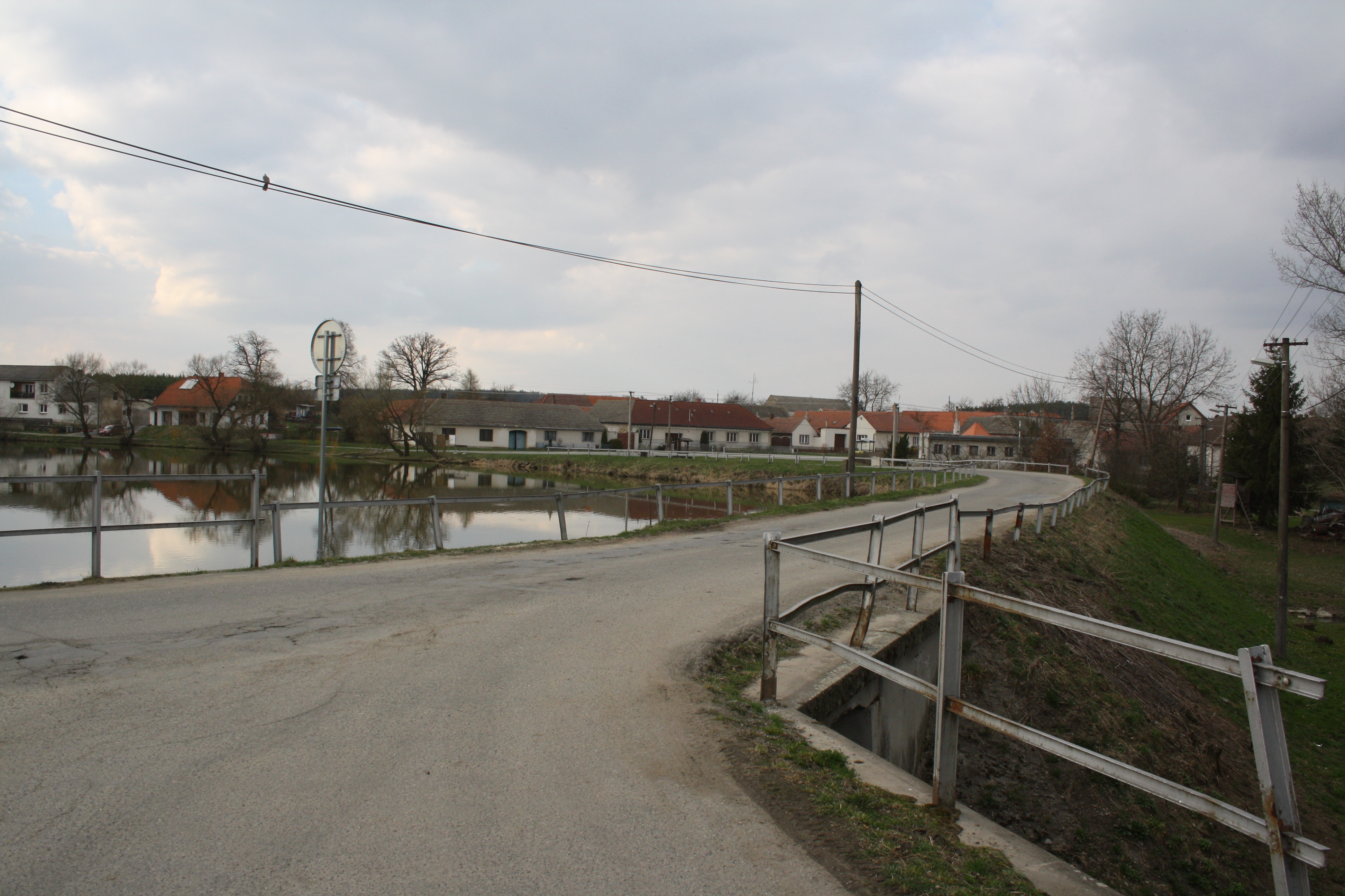 Center of Okarec with pond, Třebíč District.